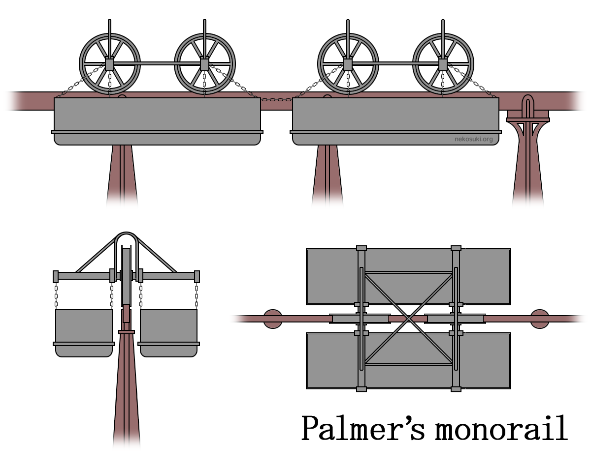 A figure of the monorail which Henry Robinson Palmer developed. This figure was drawn up "A practical treatise on rail-roads and locomotive engines (1837)" in reference. The first appearance URL is .